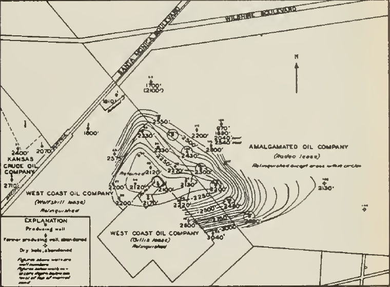 Beverly Hills Oil FieId Structure Map